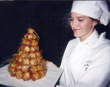 Author: Harmanx. Image of his girlfriend--a professional pastry chef in the Los Angeles area. In this picture, she is presenting a croquembouche she made while in culinary school years ago.